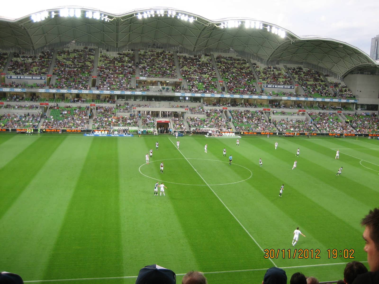 AAMI Park